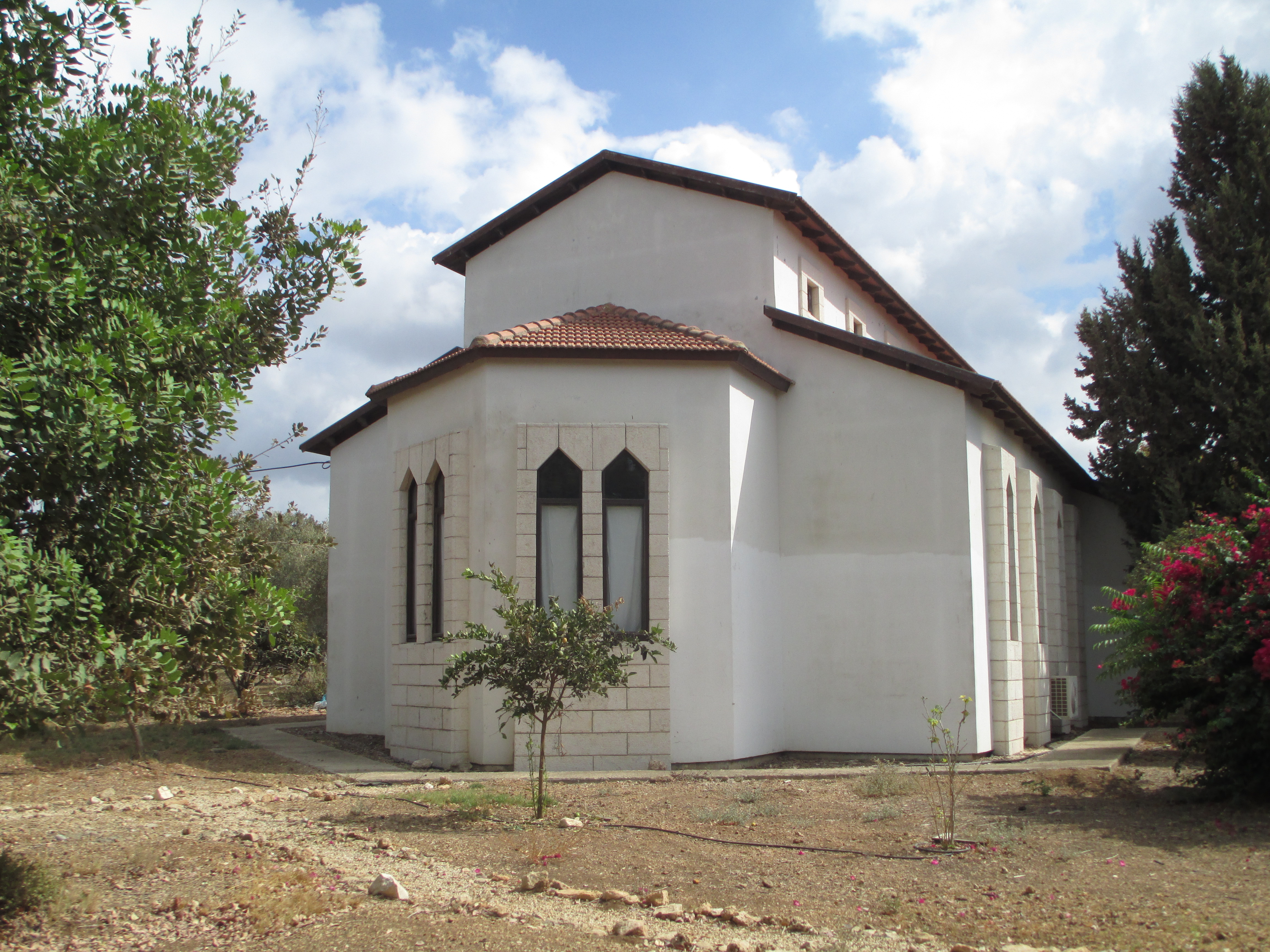 House of Prayer and Study in Nes Ammim